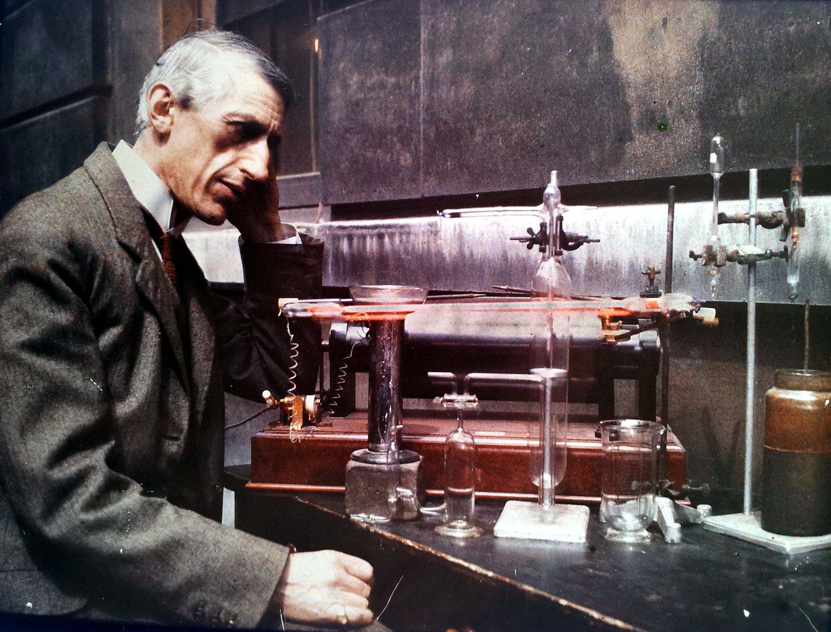 An autochrome photo of J. Norman Collie, professor of chemistry at University College London taken around 1911-1913. He is sitting next to a lit neon discharge tube, glowing in its characteristic shade of red. Neon was discovered at UCL in 1898 in the building in the background of the photo.